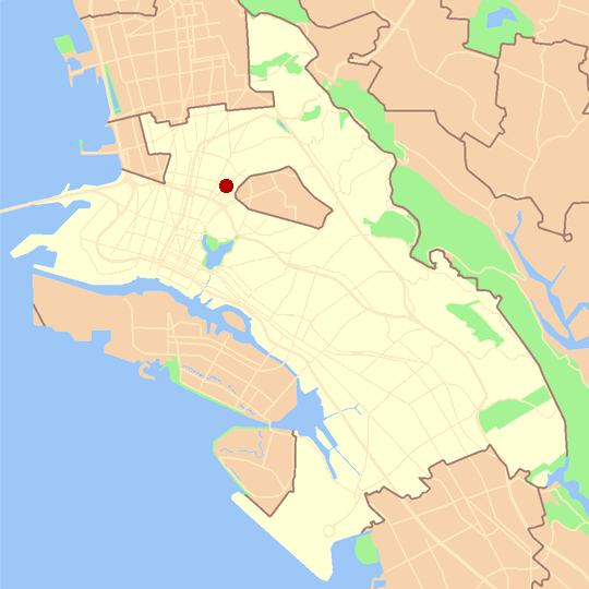 Map showing the location of Piedmont Avenue in the city of Oakland, California. Created by User:Nogood using U.S. Census Bureau data.